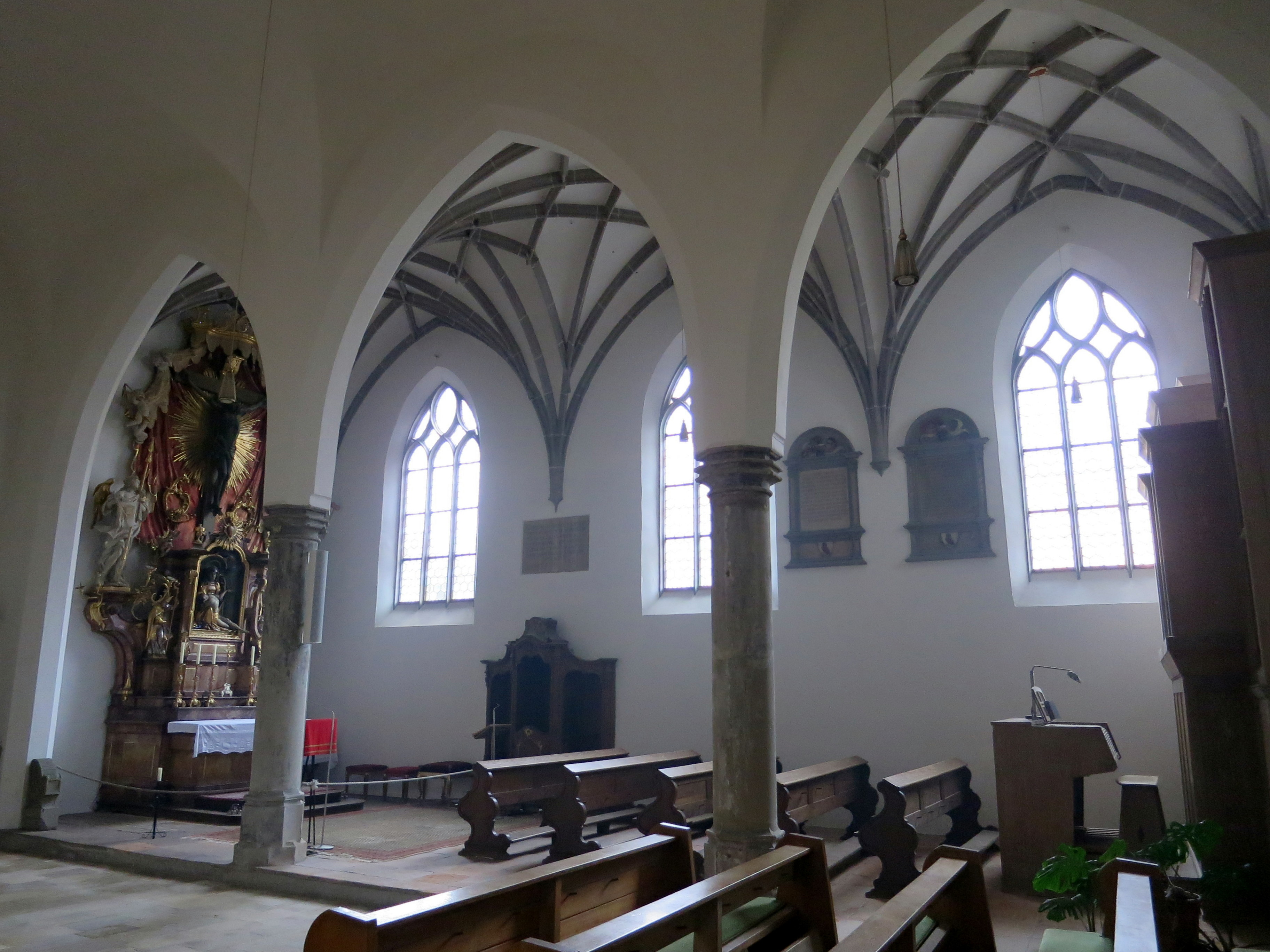 St. Georg is a former church of a monastery, nowadays a parish church